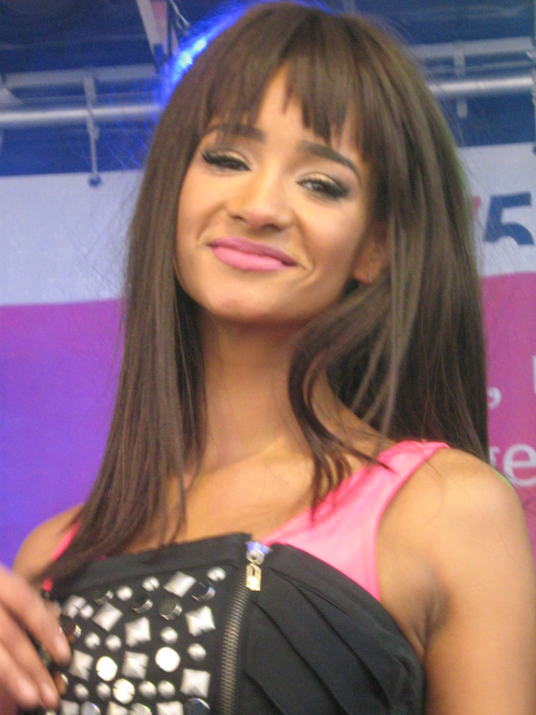 Gabriella De Almeida Rinne